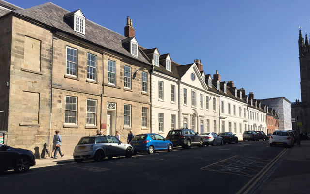 Northgate Street unwrapped, Warwick